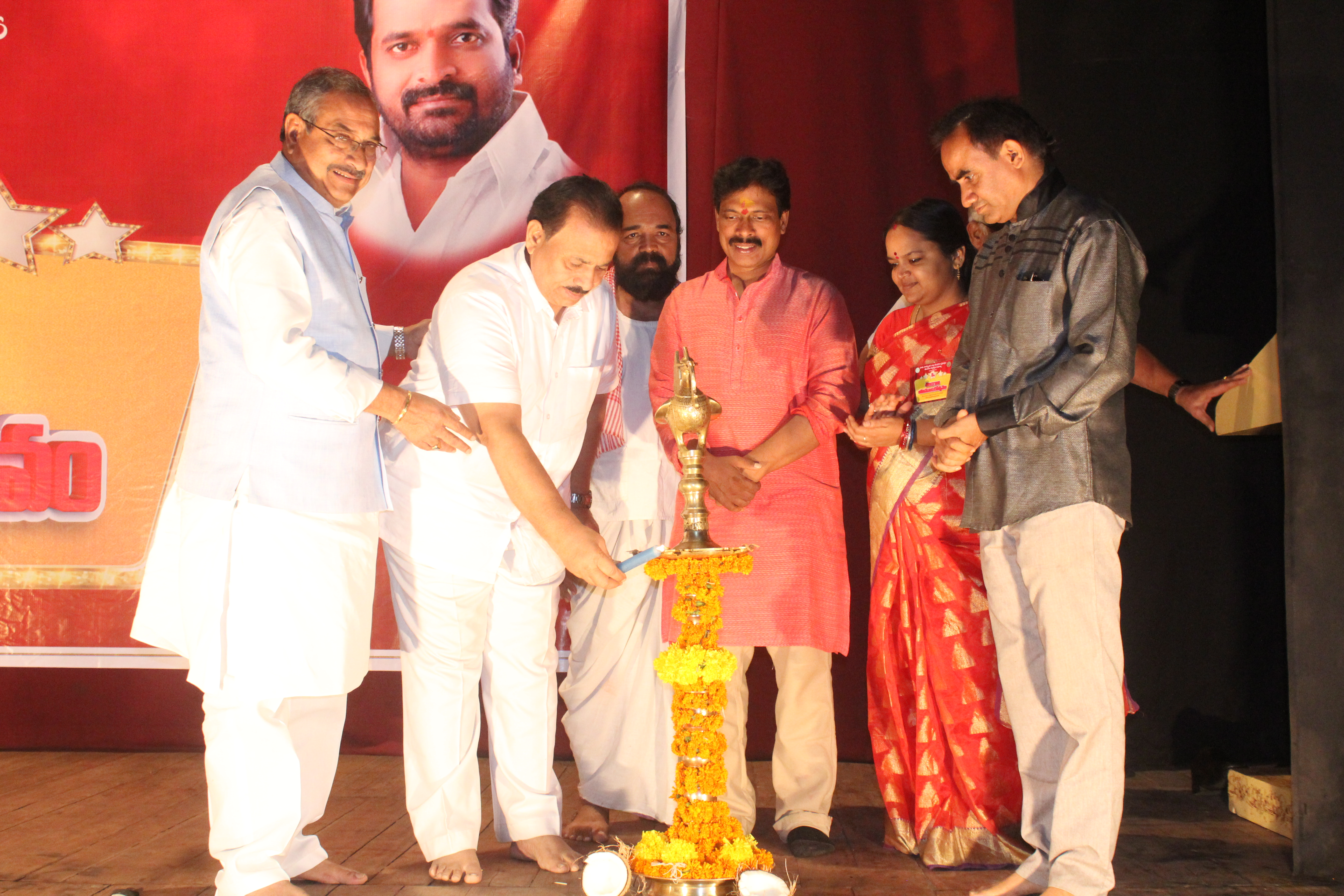 Telangana Yuva Natakotsavam 5th Edition Inaguration ceremony